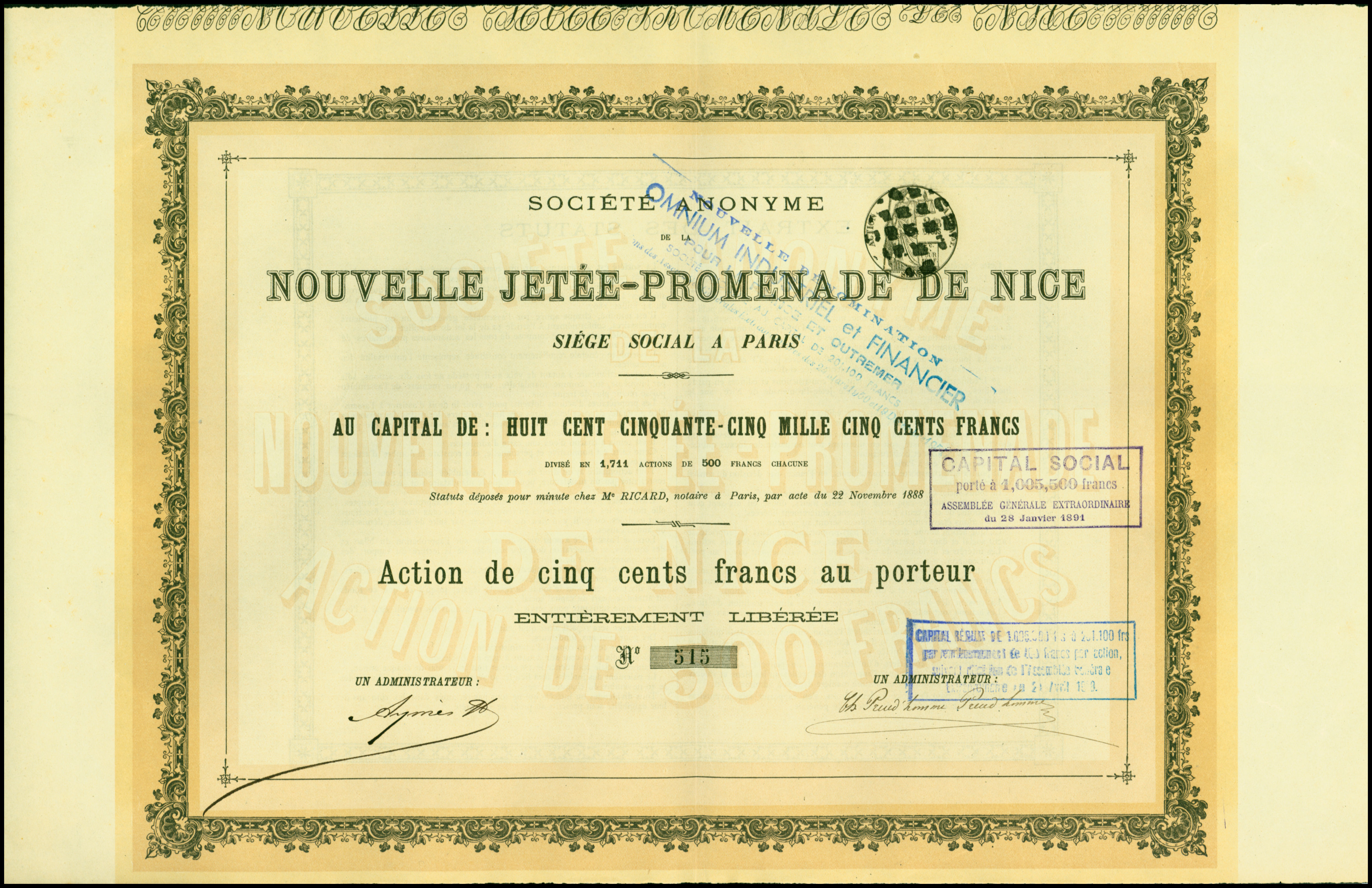 Share of the Nouvelle Jetée de Nice, issued 22. November 1888